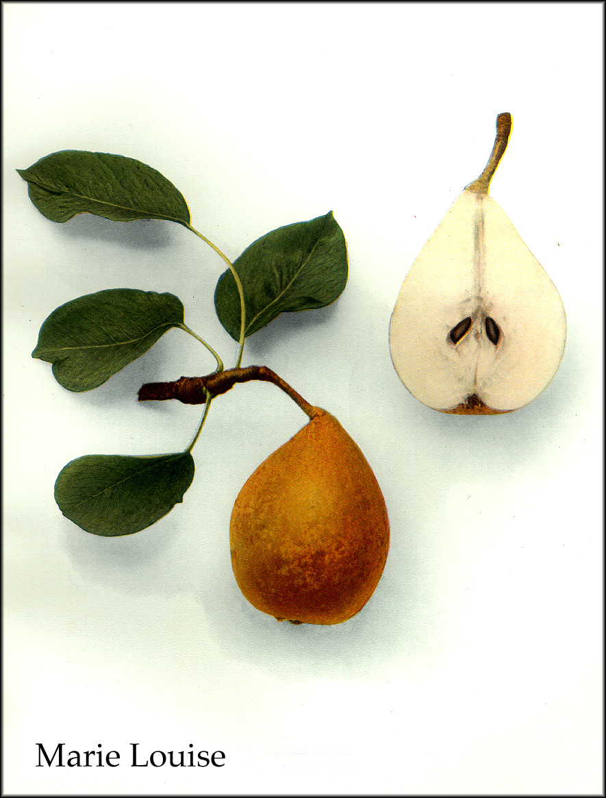 A colour plate from The Pears of New York (1921) depicting the Marie Louise pear cultivar.